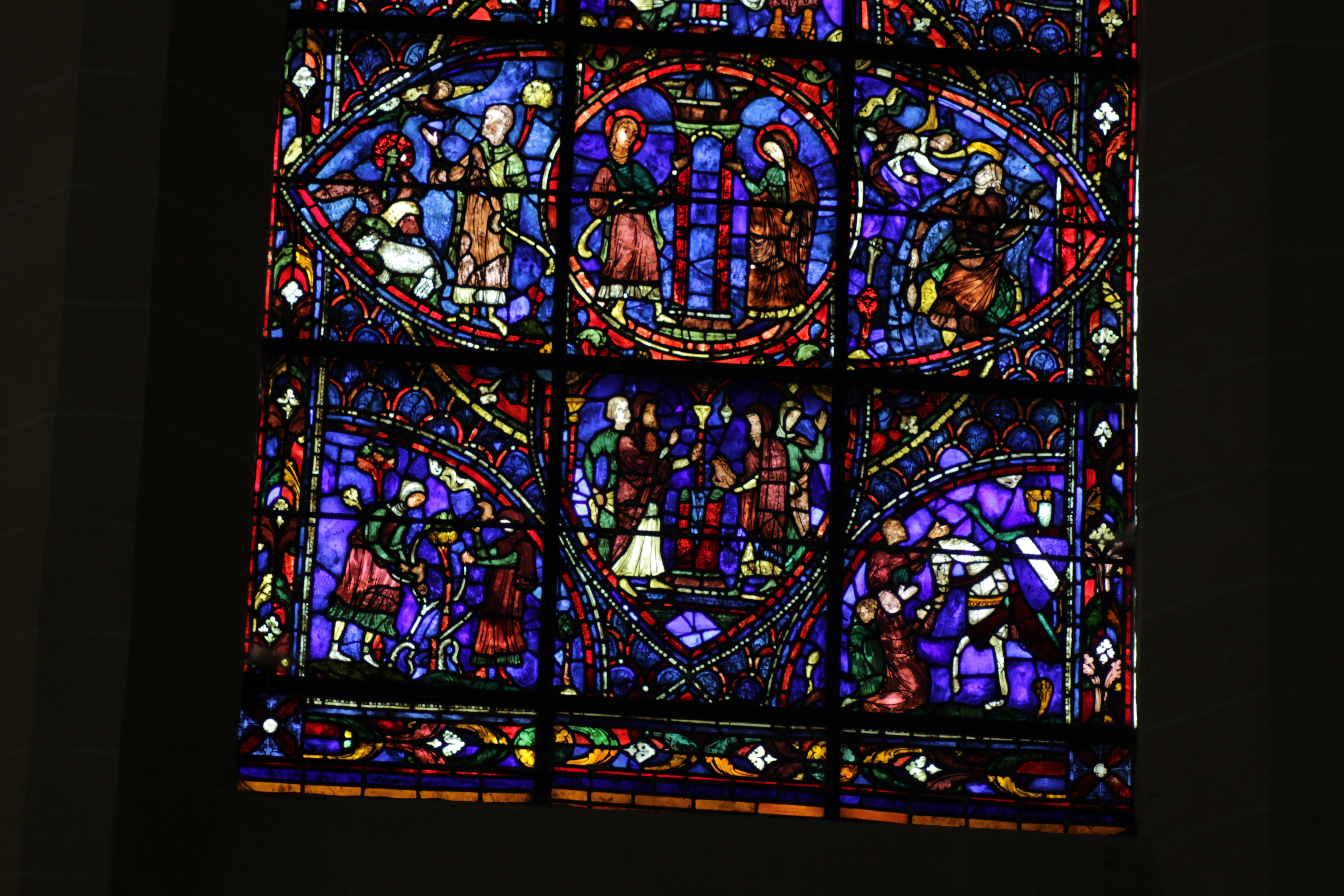 Stained window in Chartres cathedral - fragment.